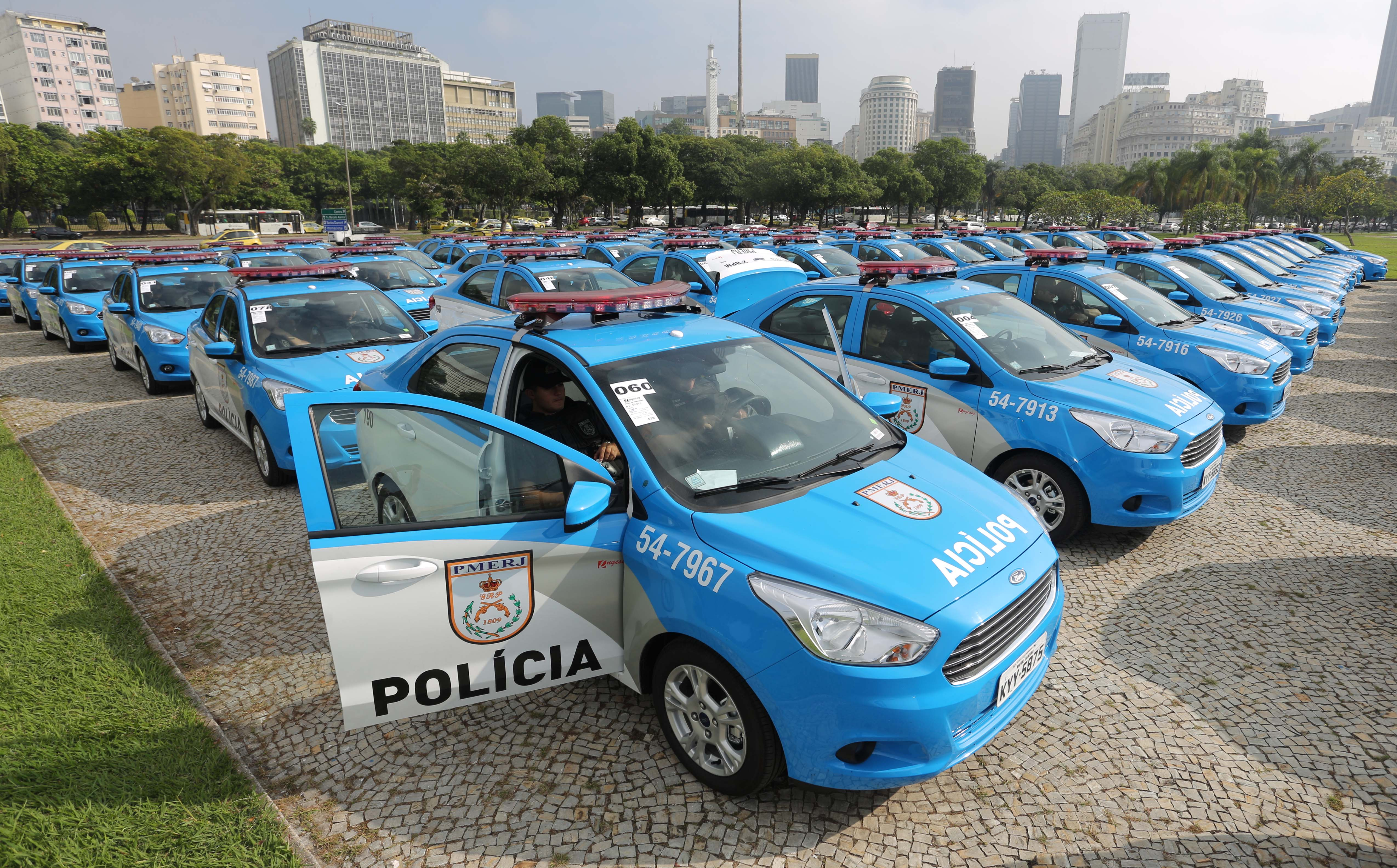 Rio de Janeiro - 26-04-2018. Governador na cerimonia de entrega de 265 viaturas para PM. FOTO: Carlos Magno